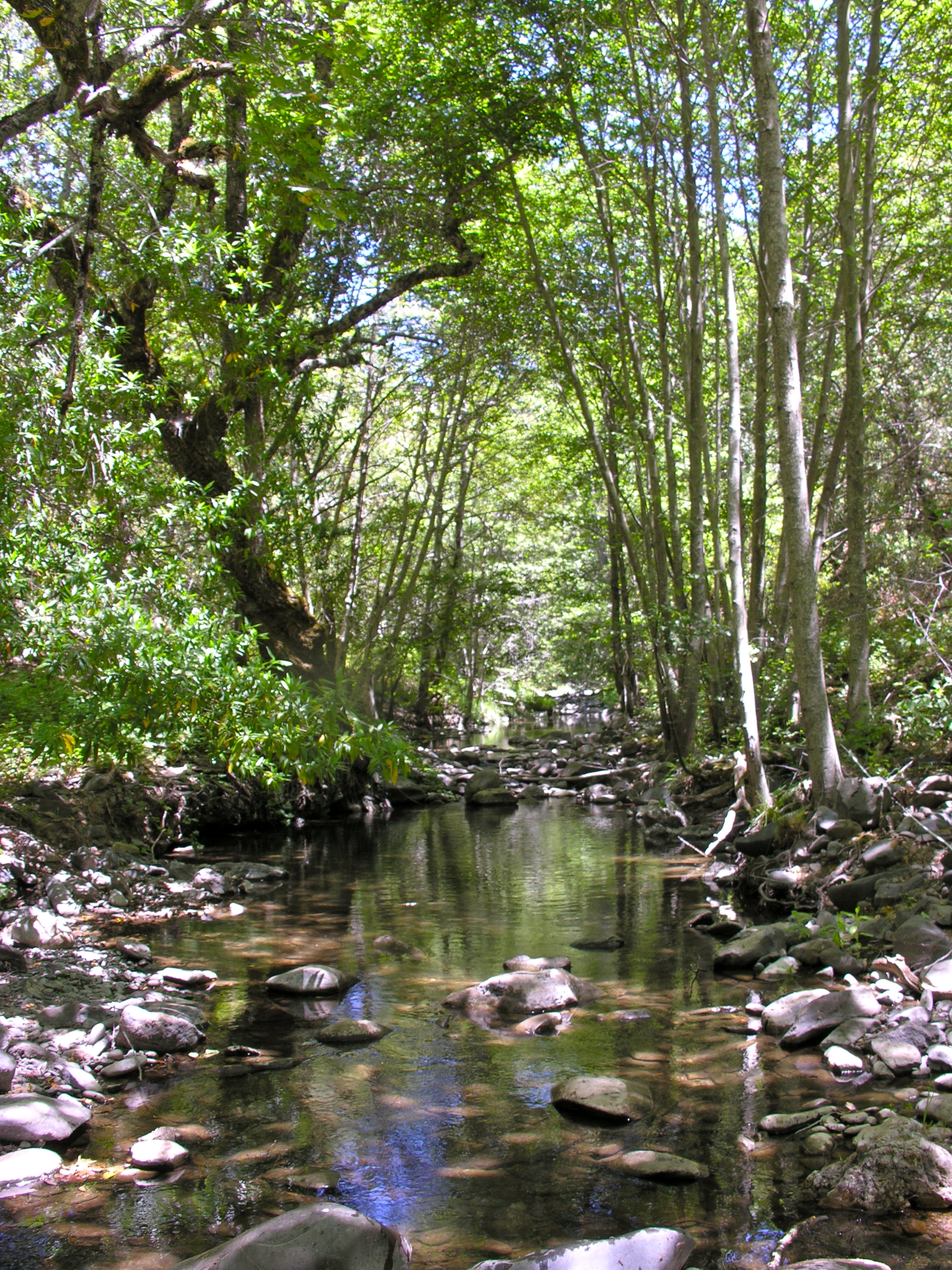 Smith Creek in Santa Clara County, California view upstream from the Mt. Hamilton Road bridge crossing.